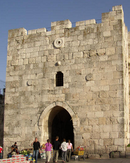 Herod's Gate (Flowers Gate, Sheep's Gate, Bab-a-Sahairad, Sha'ar Hordos) in Jerusalem, Israel